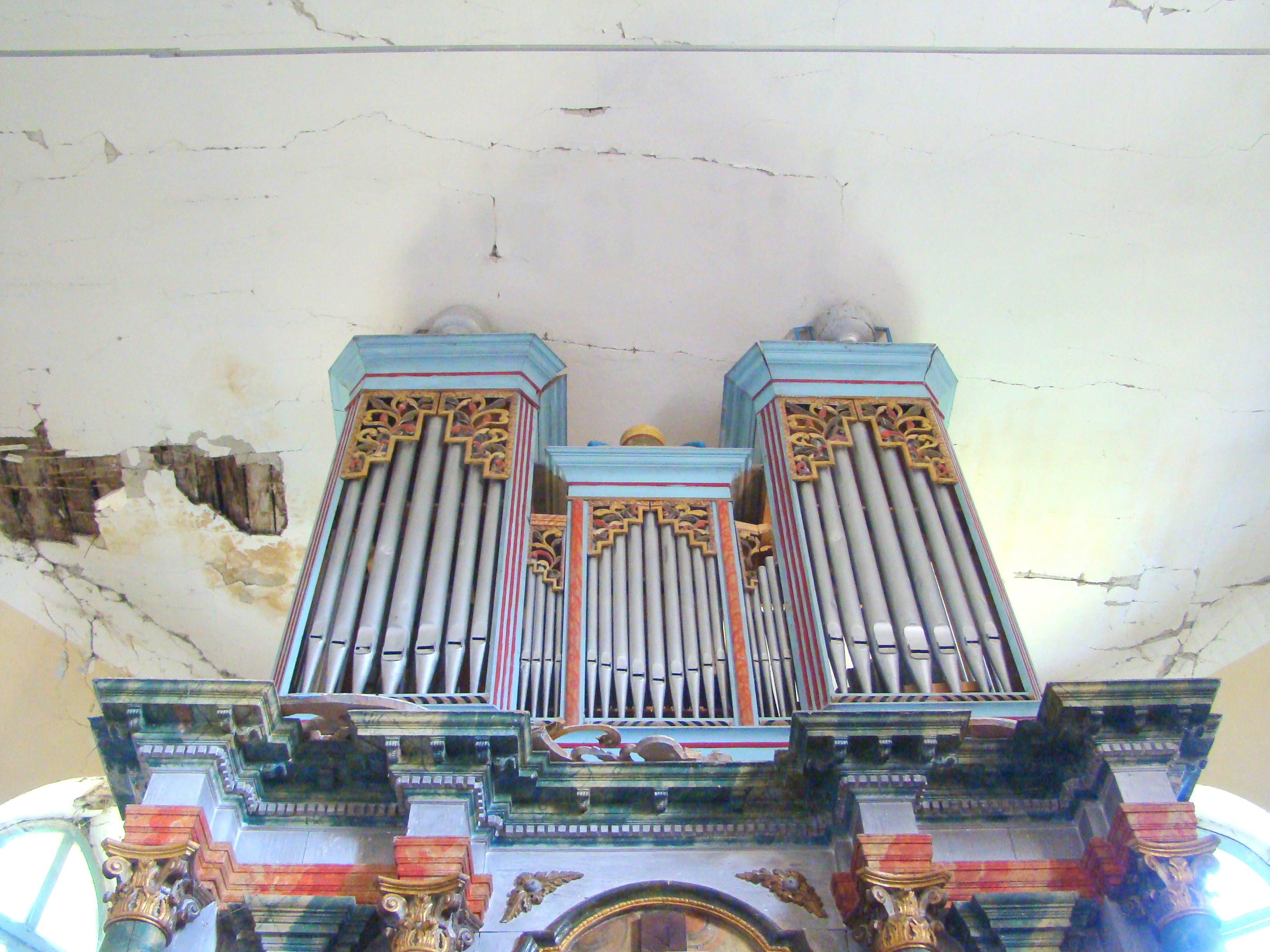 Lutheran church in Hetiur, Mureș County, Romania